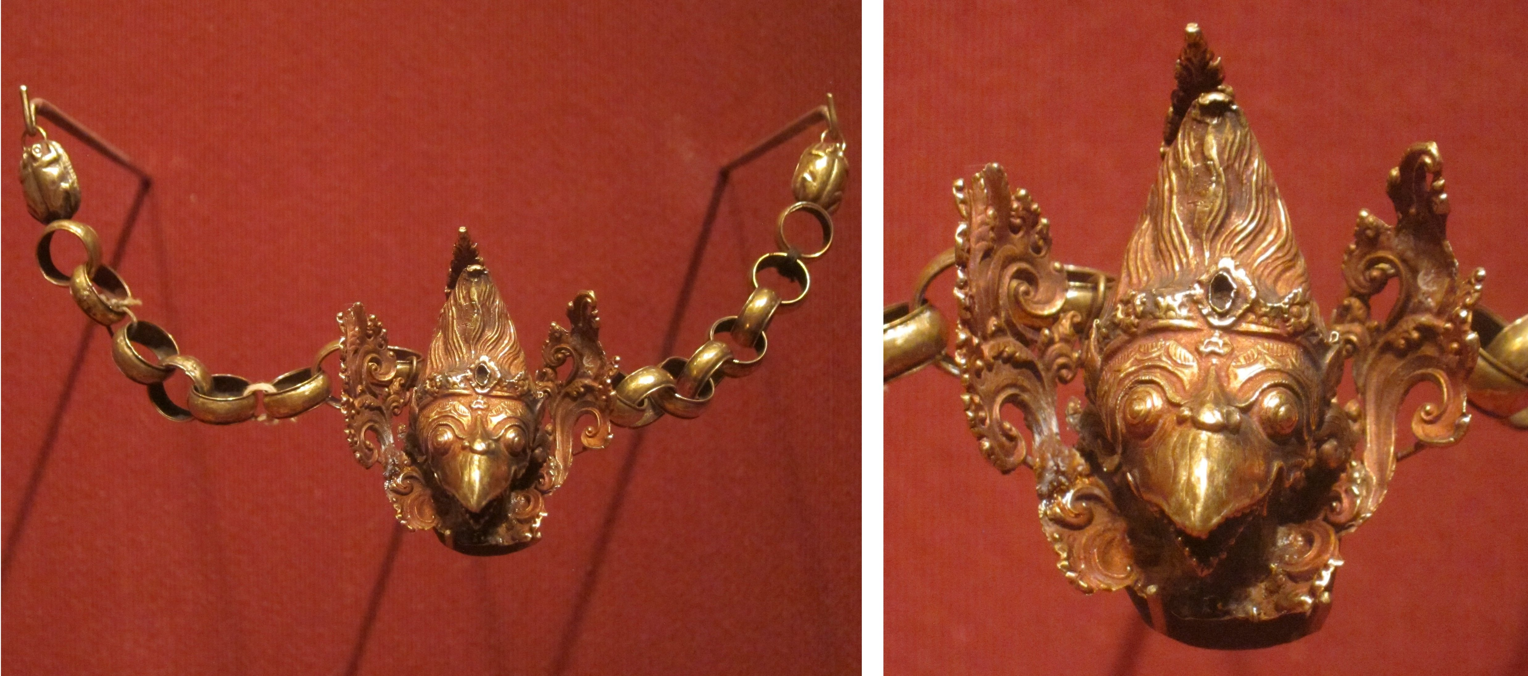 Royal ceremonial pendant (masa) with head of Garuda, Tanimbar, Yamdena Island, 16th-19th century, gold alloy, Honolulu Academy of Arts